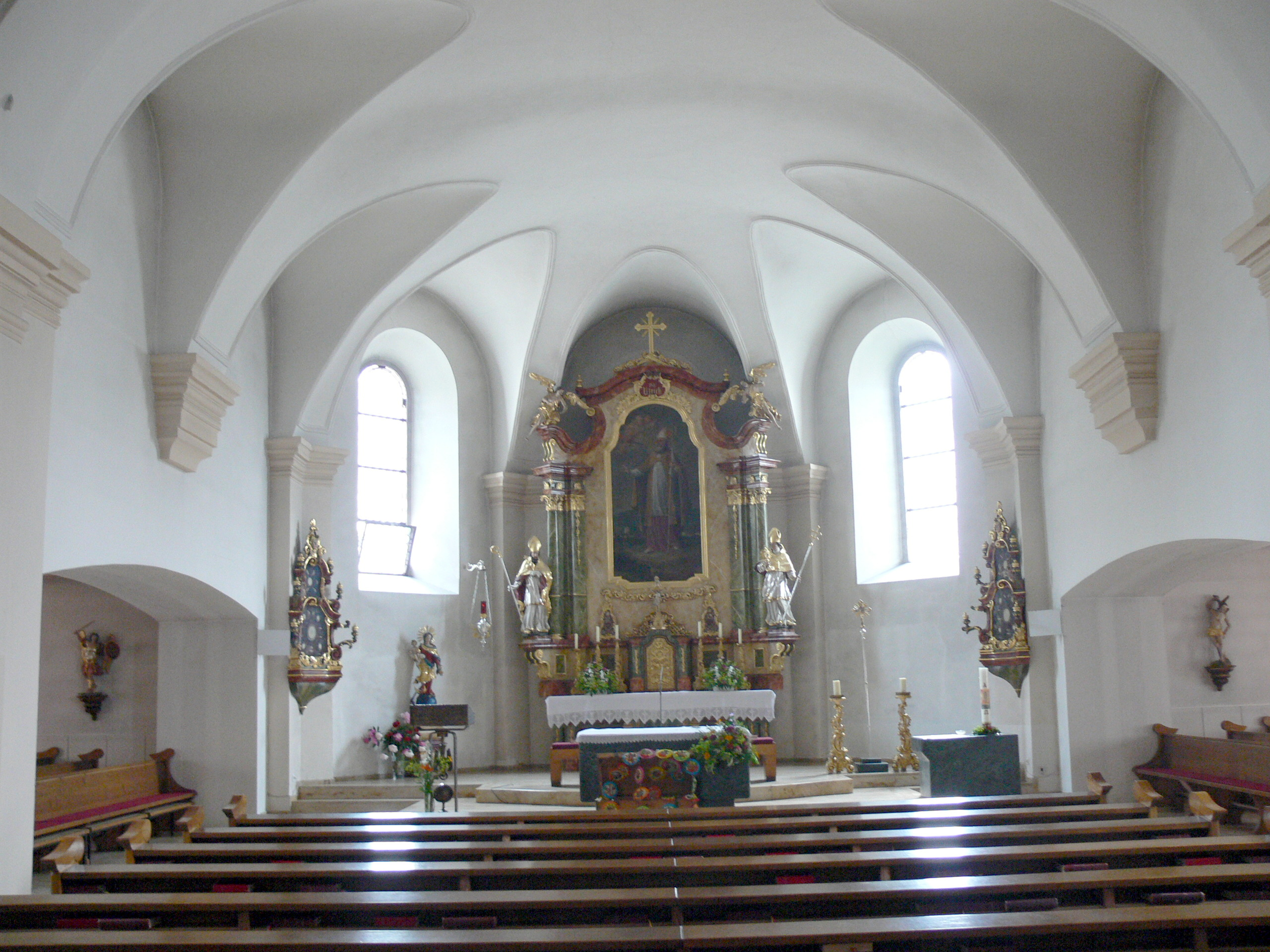 Parish church St.Ulrich in Ulrichsberg. Interior with baroque high altar ( 18th century )